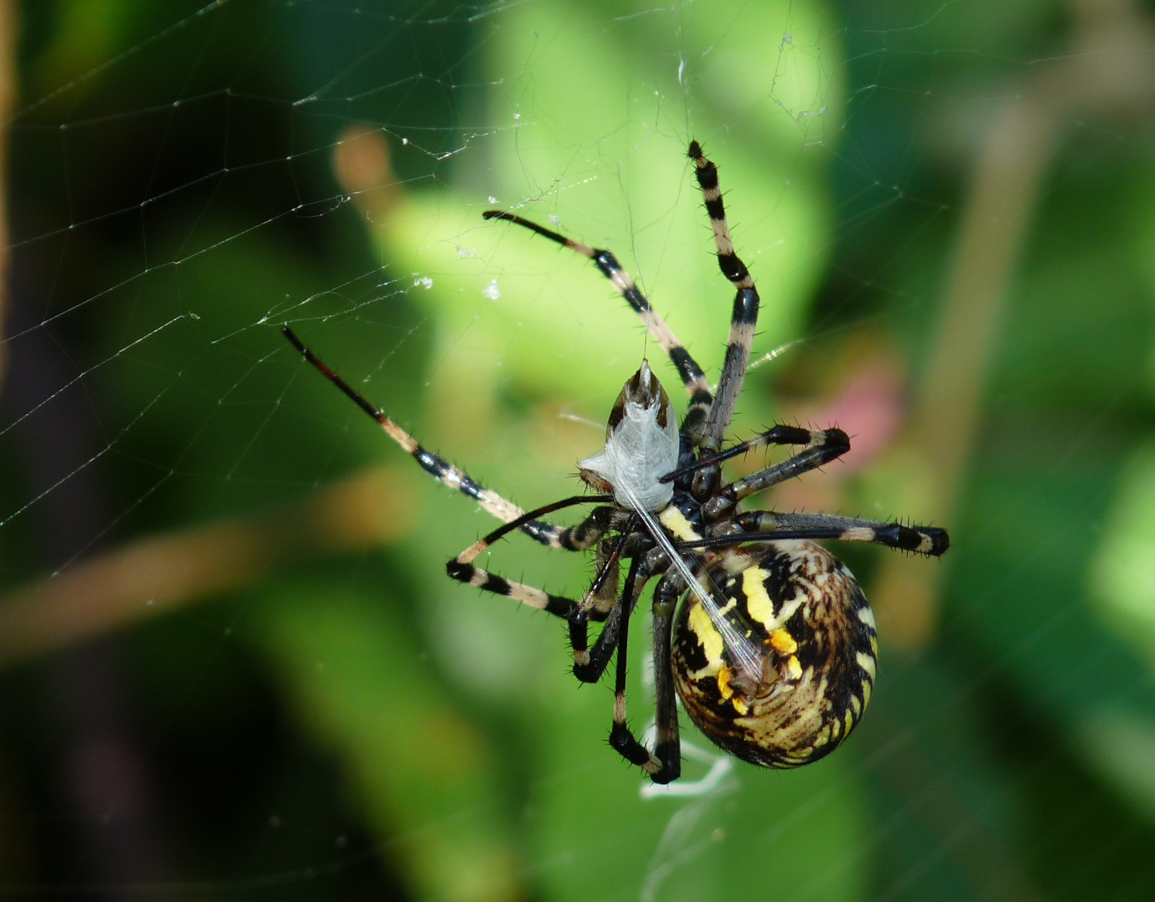 Spider Argiope bruennichi (female) wrapping its pray in silk, Bosco di Cornacchiaia, Pisa, Tuscany, Italy